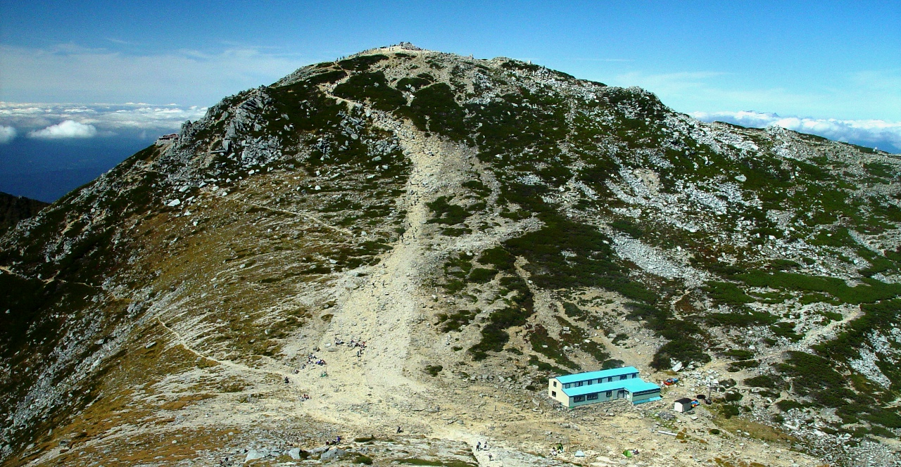 Mount Kisokoma seen from Mount Naka, in kiso Mountains, Japan.